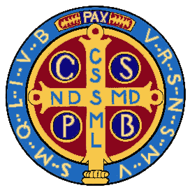 Saint Benedict Medal.